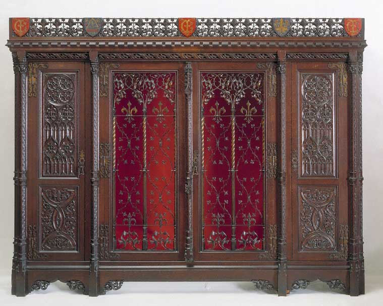 Armoire, designed in 1850 by Augustus Welby Northmore Pugin (1812-52) and made by JG Crace (1809-89) V&A Museum no. 25:1 to 3-1852 Techniques - Carved oak, with painted shields, and brass panels and handles Place - England Dimensions - Height 243.5 cm, Width 308.5 cm, Depth 61 cm